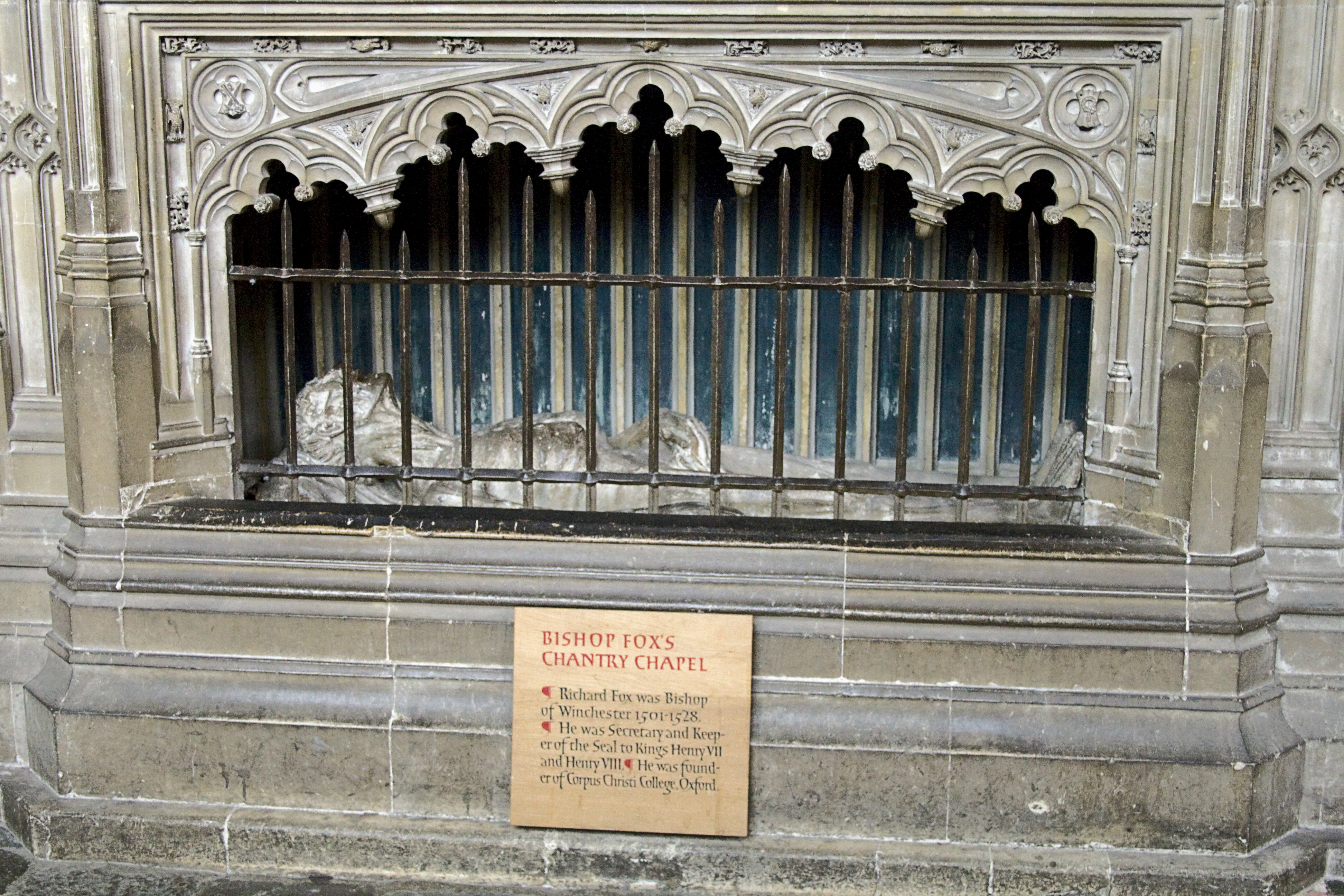 Tomb of Richard Fox, Bishop of Winchester, in Winchester Cathedral